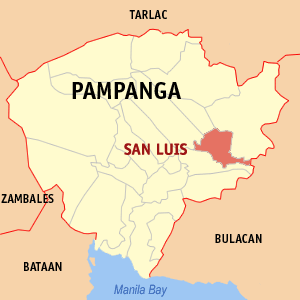 Map of Pampanga showing the location of San Luis